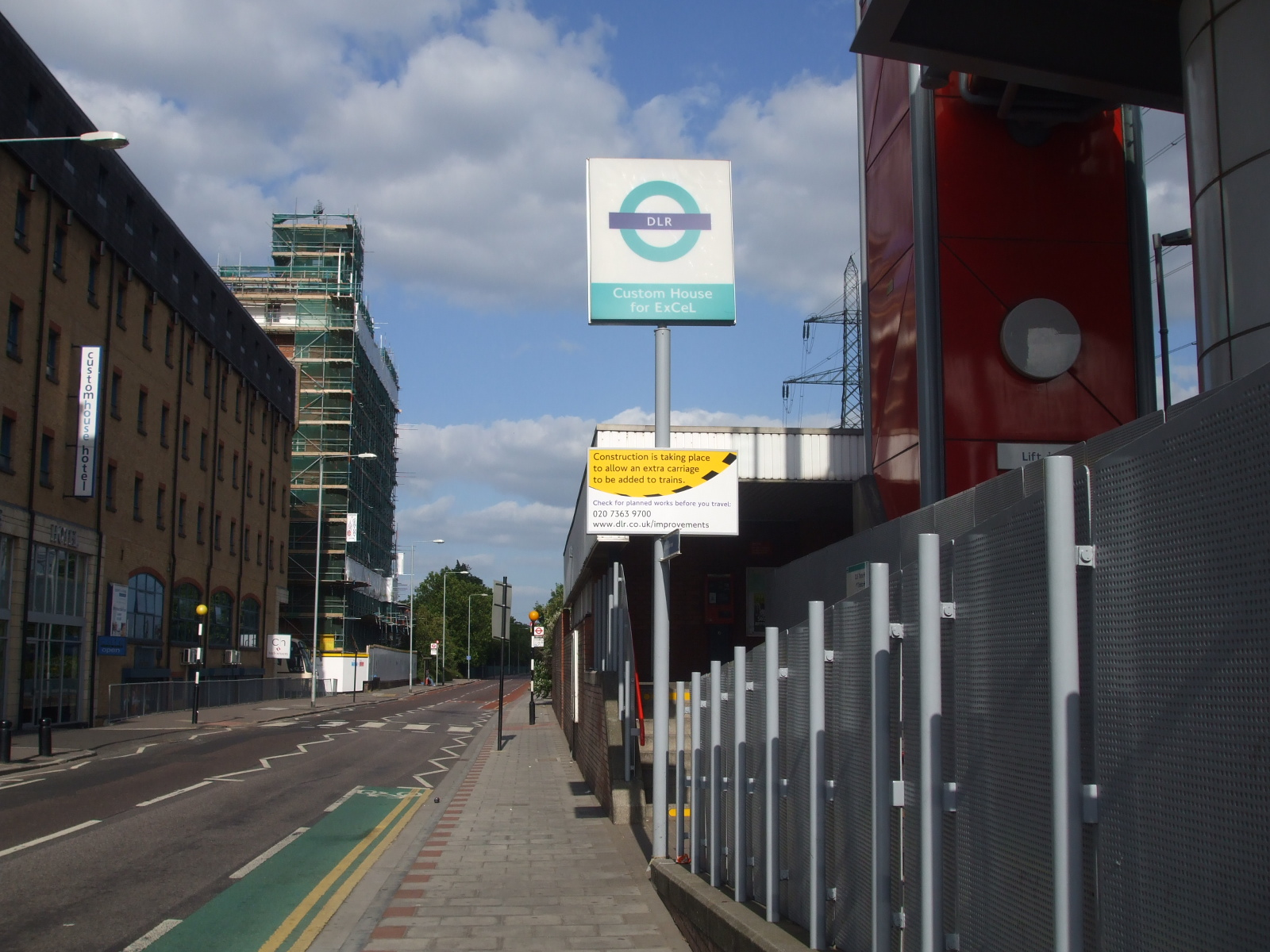 Custom House DLR station entrance, formerly also served by the North London line until late 2006.